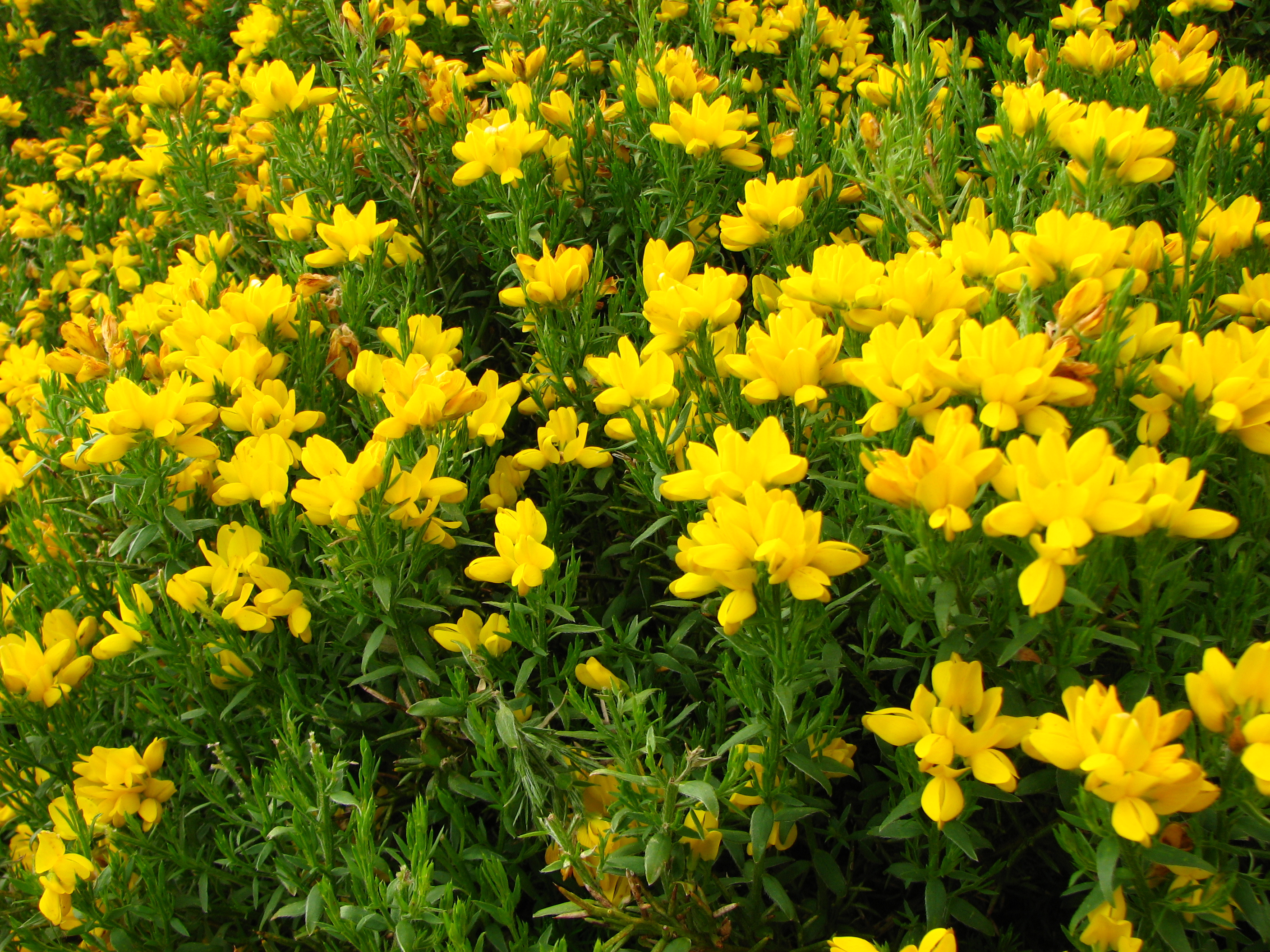 Genista hispanica subsp. occidentalis